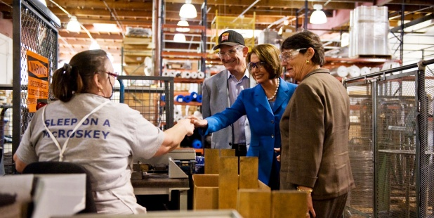 October 6, 2010 ~ Congresswoman Pelosi greets employees of McRoskey Mattress Company, a family-owned, San Francisco mattress manufacturer founded in 1899, and discusses the Make it in America agenda with owner Robin Azevedo and Mark Dwight, founder of SF Made